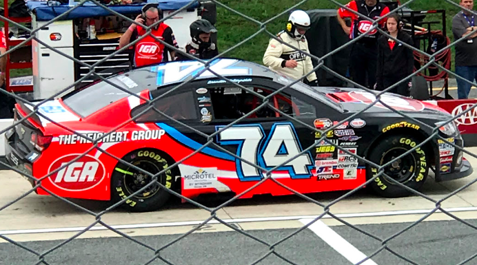 Brandon McReynolds on pit road at Dover International Speedway in 2018.